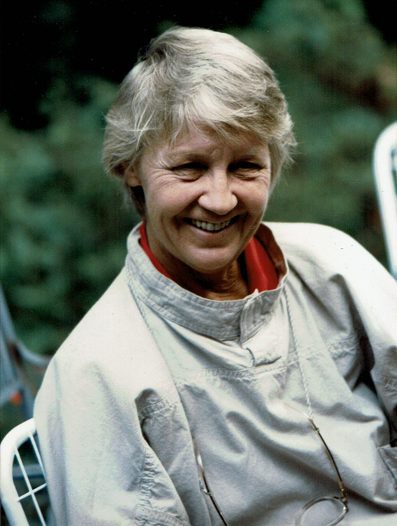 The photo captures orchestrator, teacher, and pioneering electronic music composer Ruth Anderson in her later years.